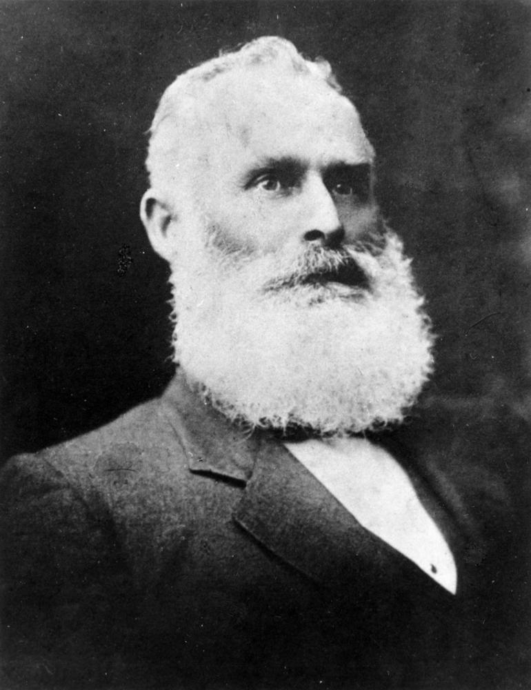 William Alexander McClelland Pioneer from Cedarvale Homestead, near Bell, Queensland.